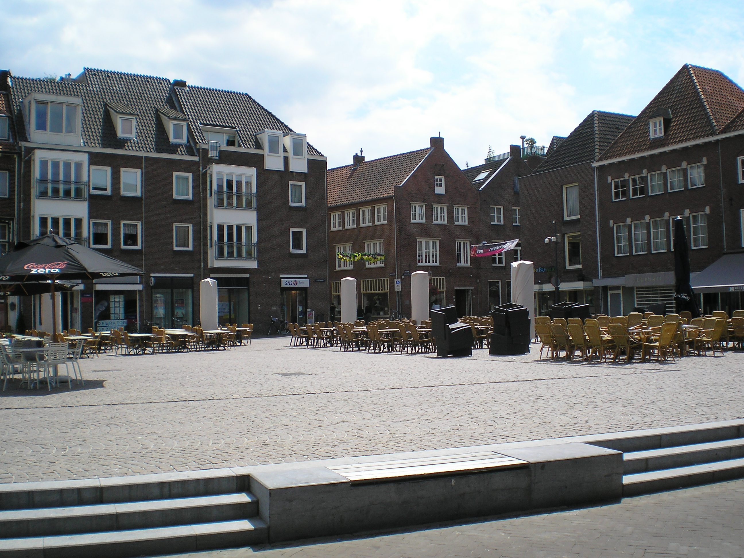 Oude Markt in Venlo in the Netherlands